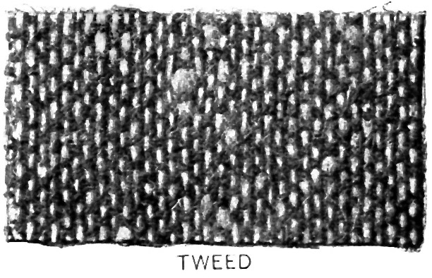 Tweed (cloth) close up